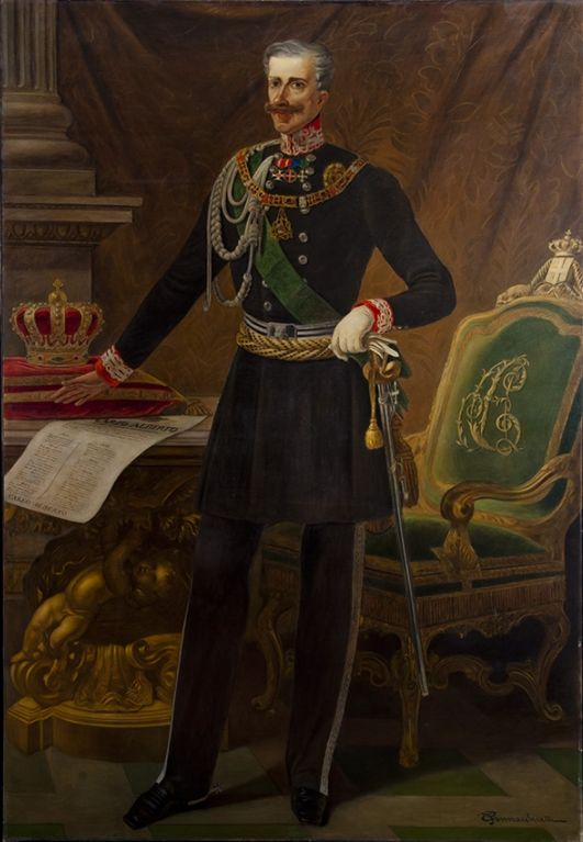 Portrait of Charles Albert, king of Sardinia (1798-1849)